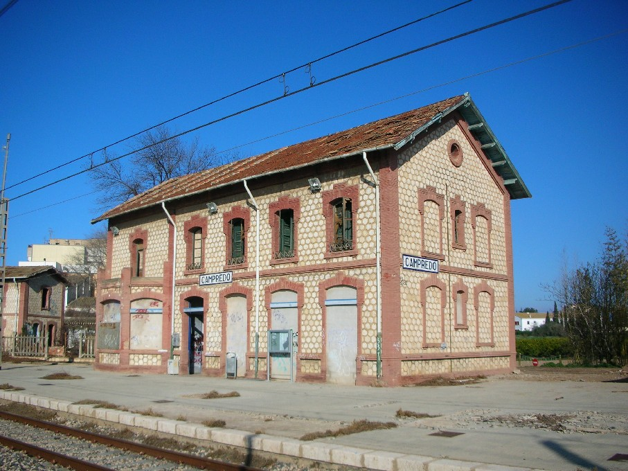 Campredó, a town near Tortosa. Abandoned railway station.